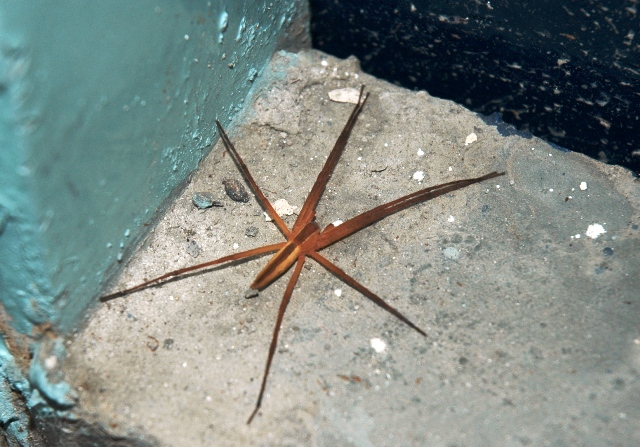 Thalassius albocinctus belongs to family Pisauridae